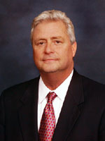 Former Speaker of the Florida House of Representatives Allan Bense